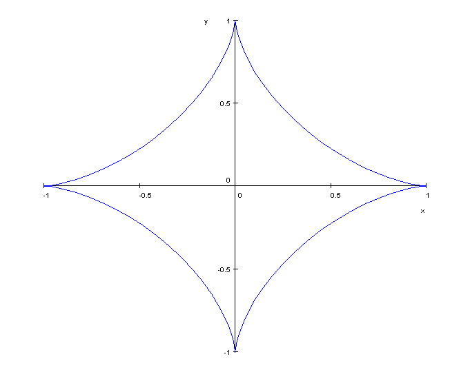 Astroid x = a cos 3 ⁡ θ , y = a sin 3 ⁡ θ , a = 1 {\displaystyle x=a\cos ^{3}\theta ,y=a\sin ^{3}\theta ,a=1}